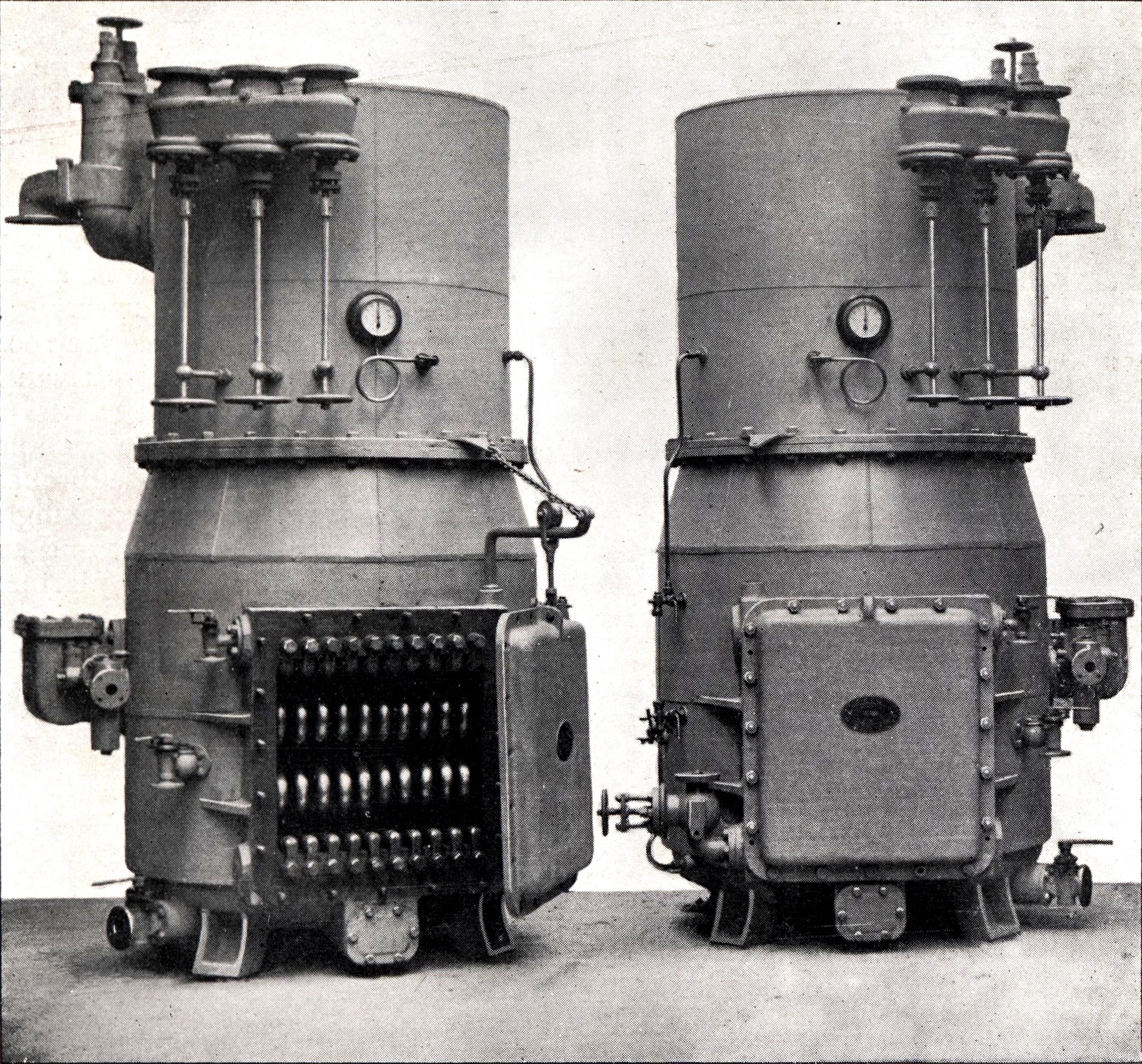 Two of the Evaporators